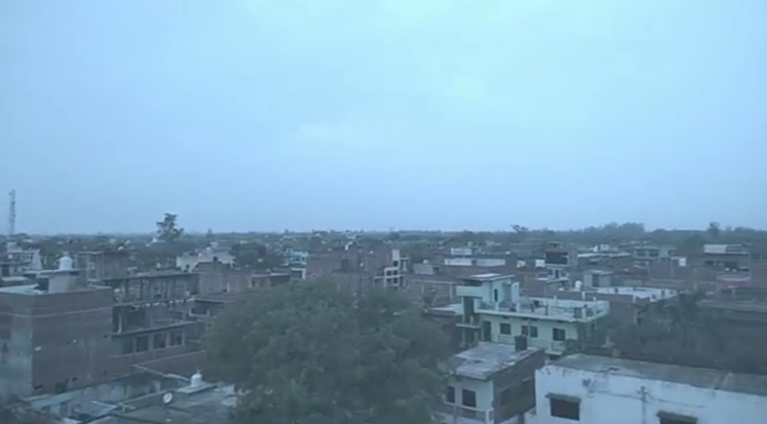 Aerial view of Machhalisahar